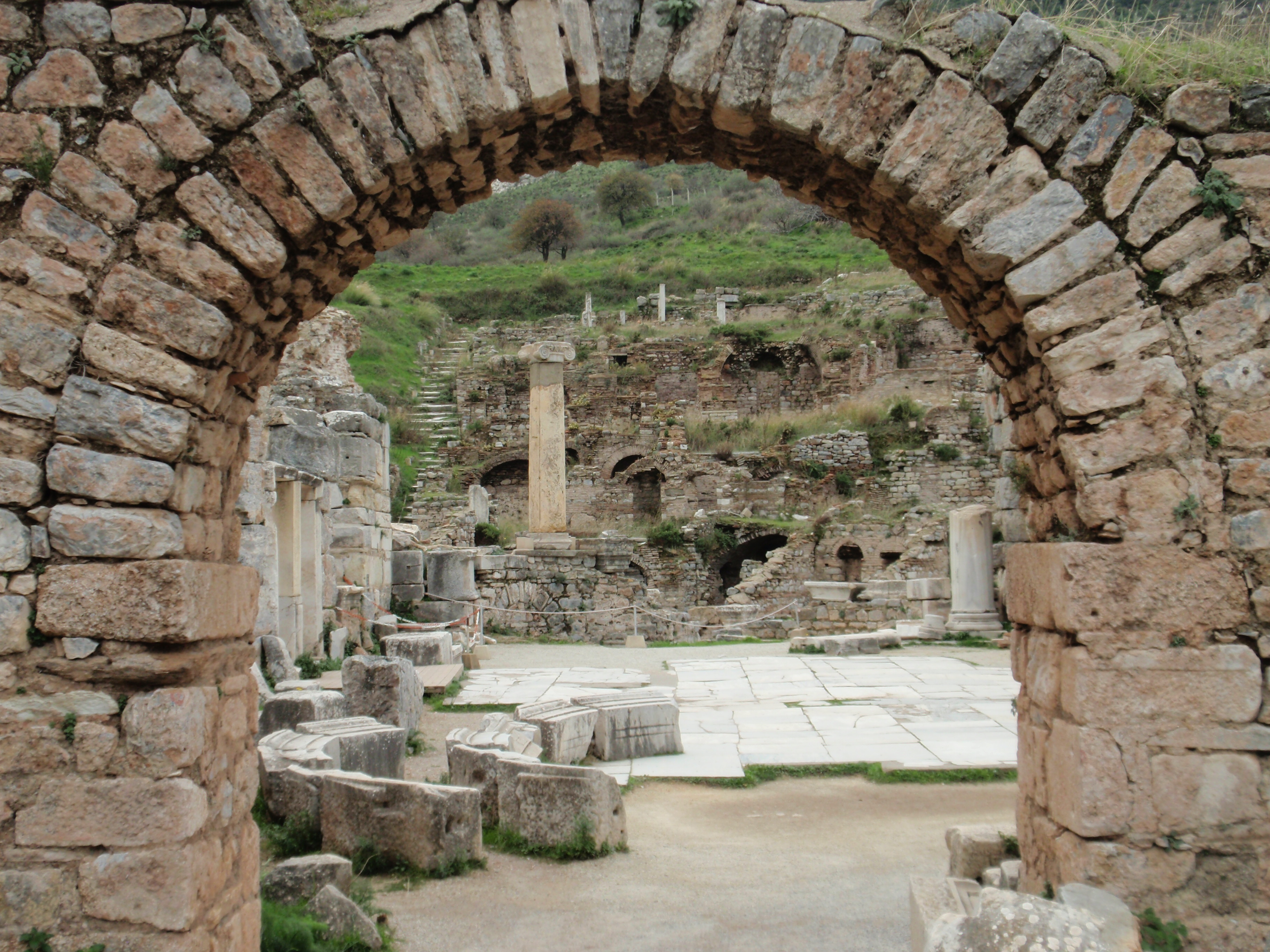 ephesosTürkçe: efes antik kenti